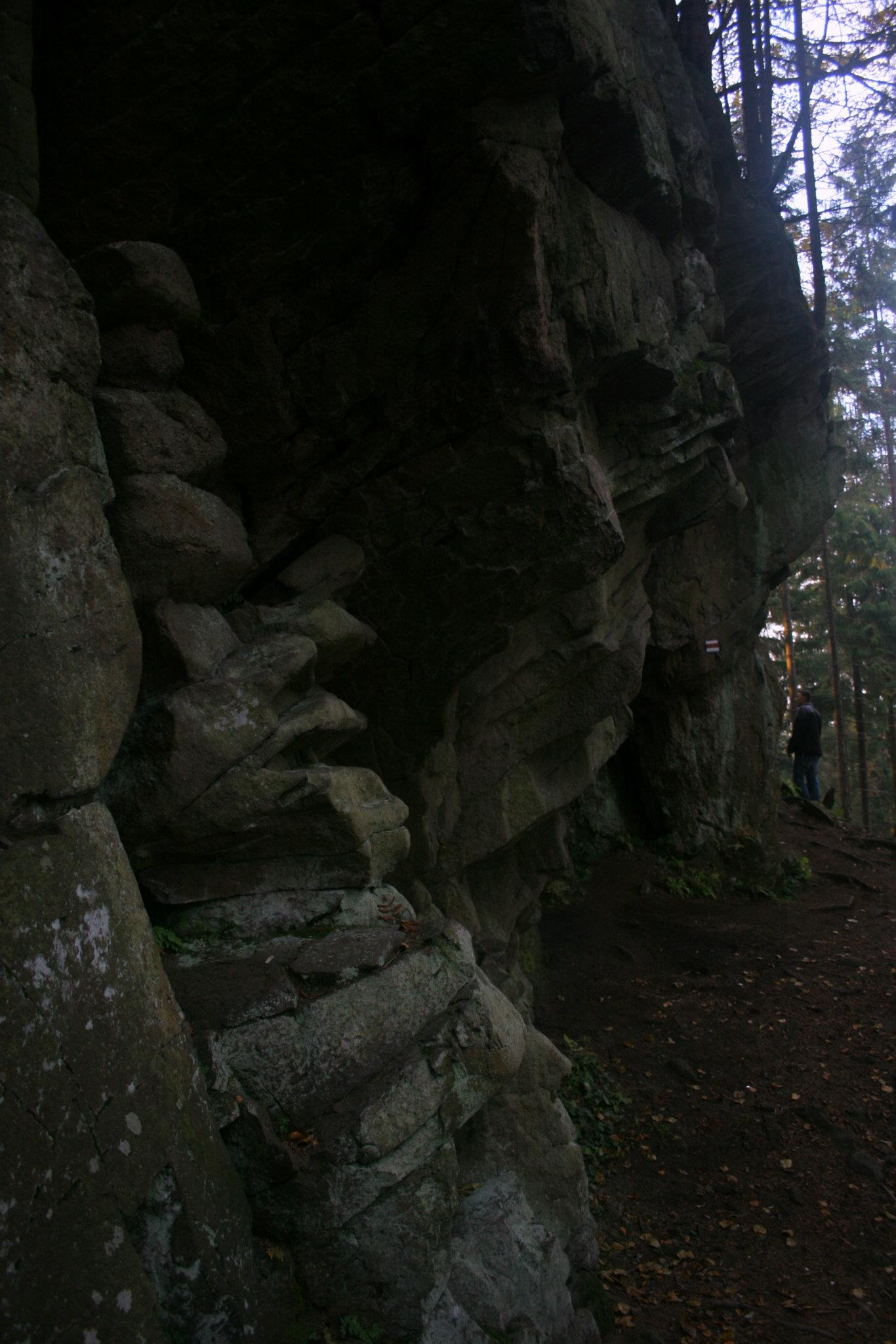 Dorkowa Skała - outcrop in the Beskid Śląski mountain range, Poland